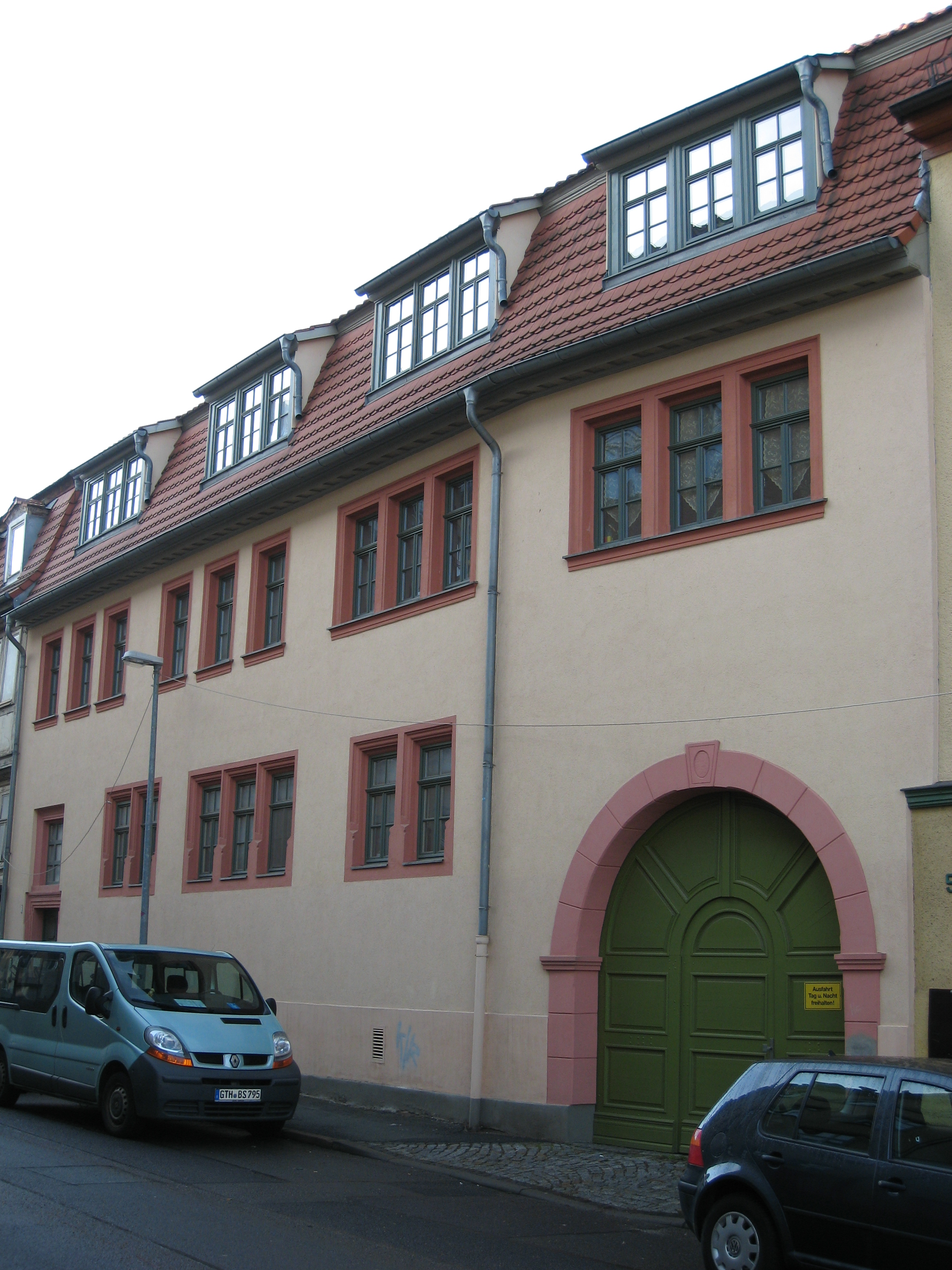 Lucas-Cranach-Strasse 3 Gotha